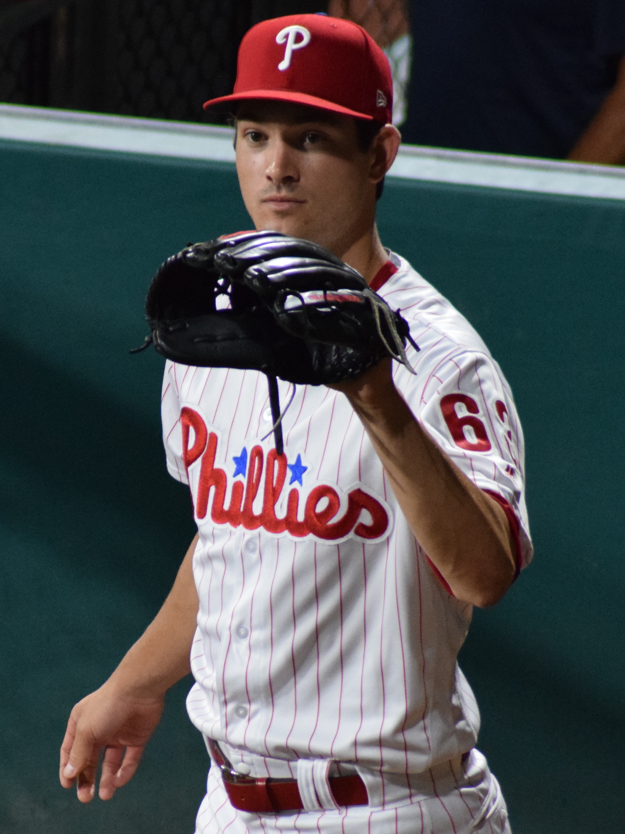 Philadelphia Phillies relief pitcher Drew Anderson